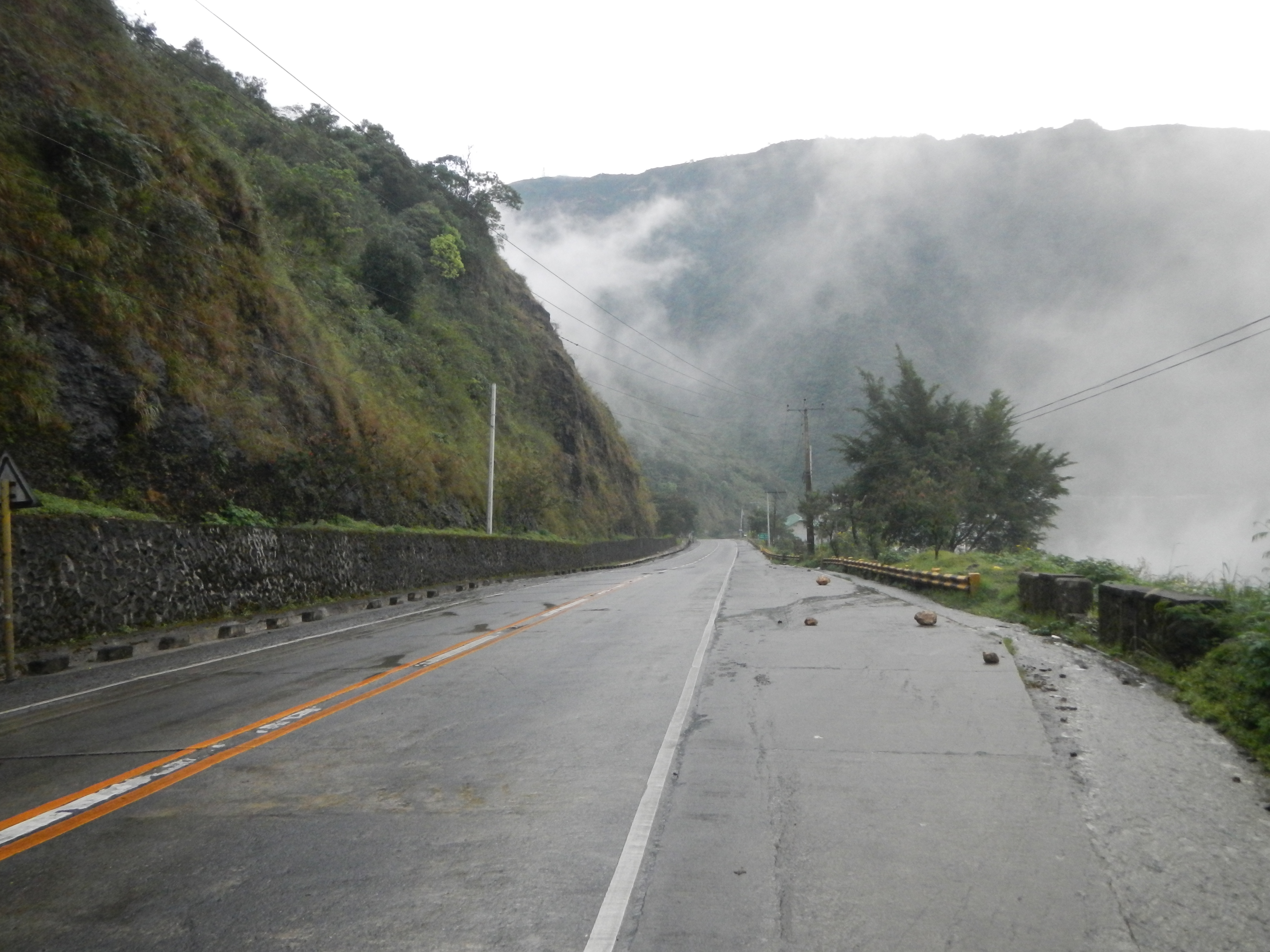 Upload Wizard photos of - the - foggy view of Tuba, Benguet Town Proper and nearby barangays, Sitio Bontiway, Poblacion, (Details -- the Tuba Public Market beside the Covered Basketball Multi-Purpose Court, Barangay Hall of Poblacion, Senior Citizen's Building, Strawberry Day Care Center, Tubencoga Office, -- Tuba Town Proper, Centro, Poblacion, Product Display Center, Tuba Municipal Hall Complex, Police Station, - scenery, panoramic, landscapes of Tuba mountains and hills, with panoramic view of Baguio City houses and City Proper in the mountains, beside the - Conversion of Saint Paul Parish Church of Tuba (F-1975), Tuba 2603 Benguet Titular: Conversion of St. Paul, January 25 Parish Priest: Fr. Victor Munar Saint Paul Parish Church of Tuba,[1] [2] [3] Poblacion, Tuba, Benguet[4] (first class municipality in the province of Benguet,[5] Philippines politically subdivided into 13 barangays) in he Central Cordillera Mountain Range [6]) - beside the Saint Paul Children's School, Tuba Central School, DepED CAR, Tuba District) - and the view along Marcos Highway - now the Aspiras-Palispis Highway.